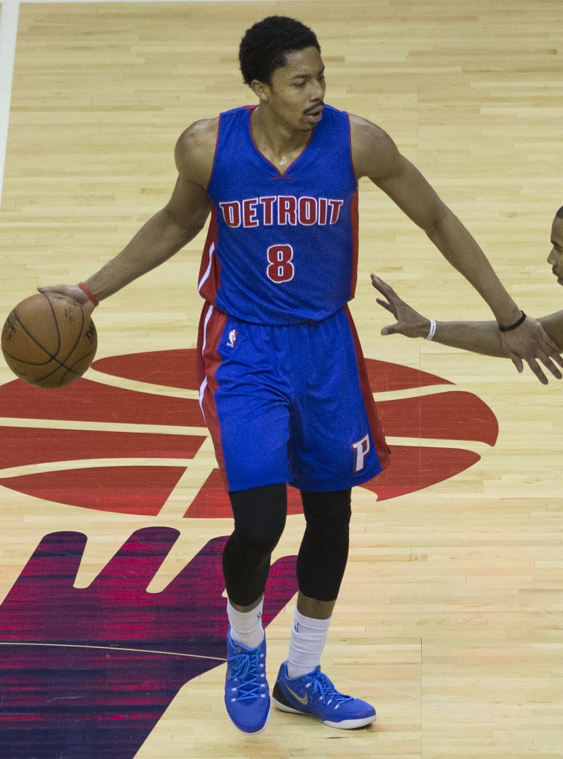 Pistons at Wizards 02/28/15